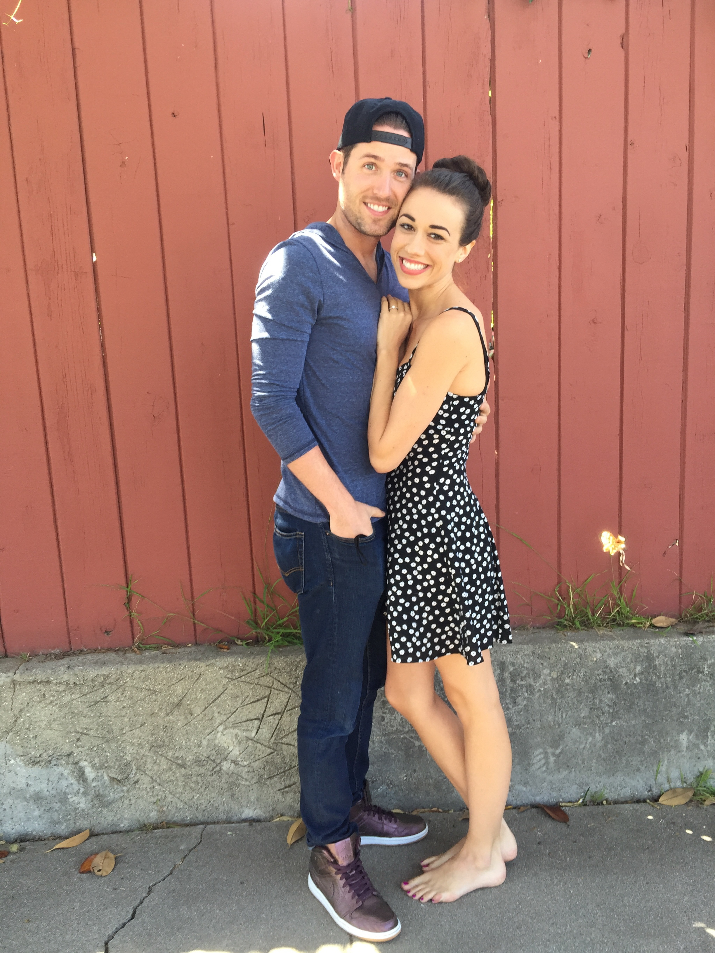 Photo of Joshua David Evans and Colleen Evans, taken in Santa Barbara Other information The photographer wrote in a message attaching this photo and one other: I, Gwen Ballinger, am the photographer and I own all the rights to these photos. ... I hereby release these two photos to the public domain without the reservation of any rights.